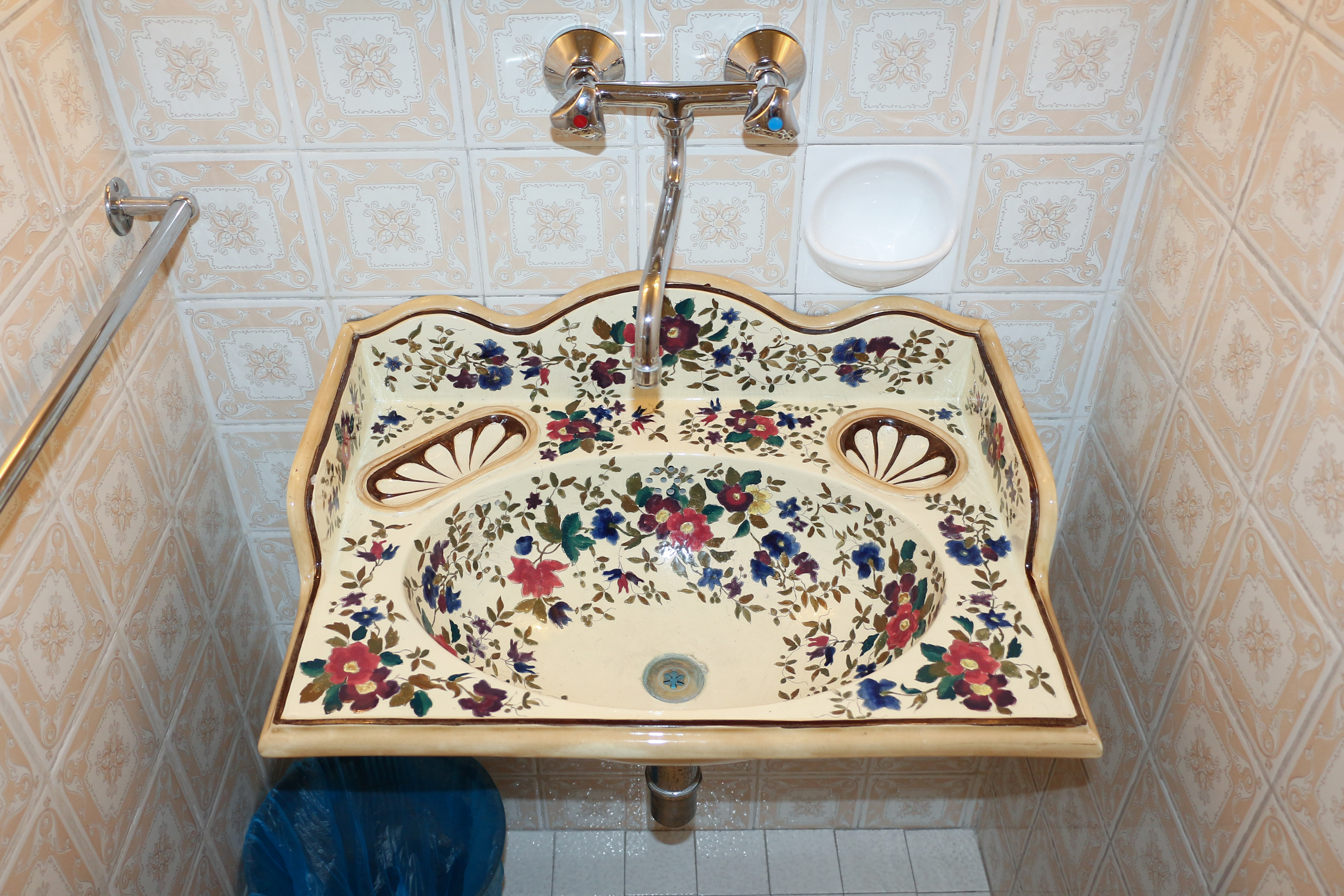 A sink in Croatian National Theater, Zagreb, Croatia